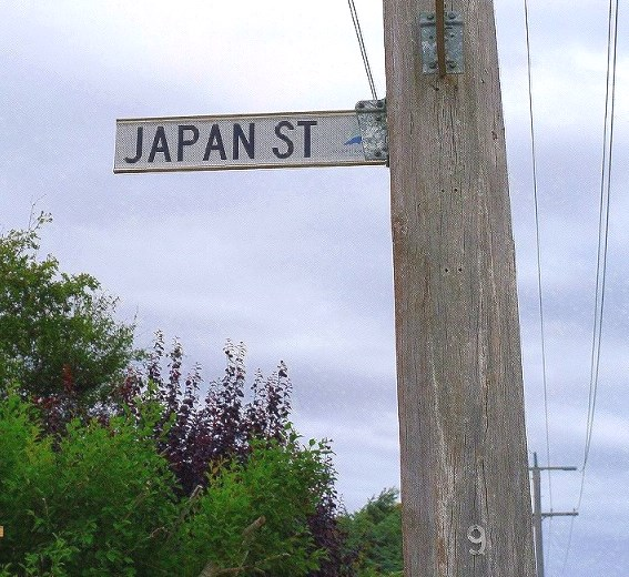 Japan Street